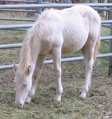 A young perlino brumby. A perlino horse will have a darker mane and tail than a cremello's white points.